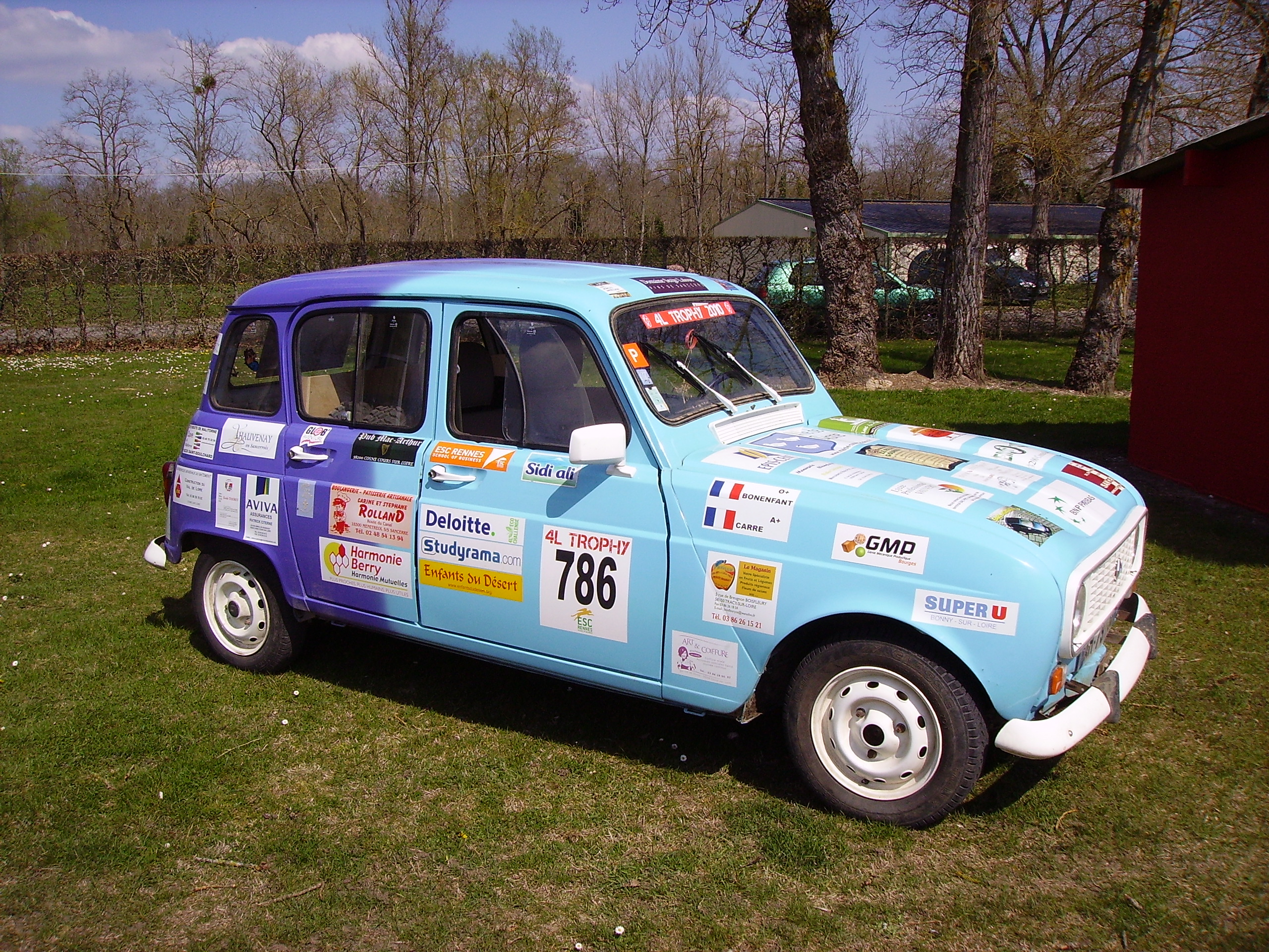 Renault 4 of the 4L Trophy - 2010 edition.